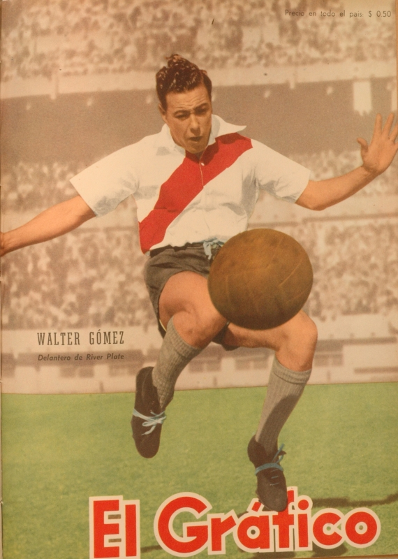 Uruguayan striker Walter Gómez playing for Argentine club River Plate in 1950.